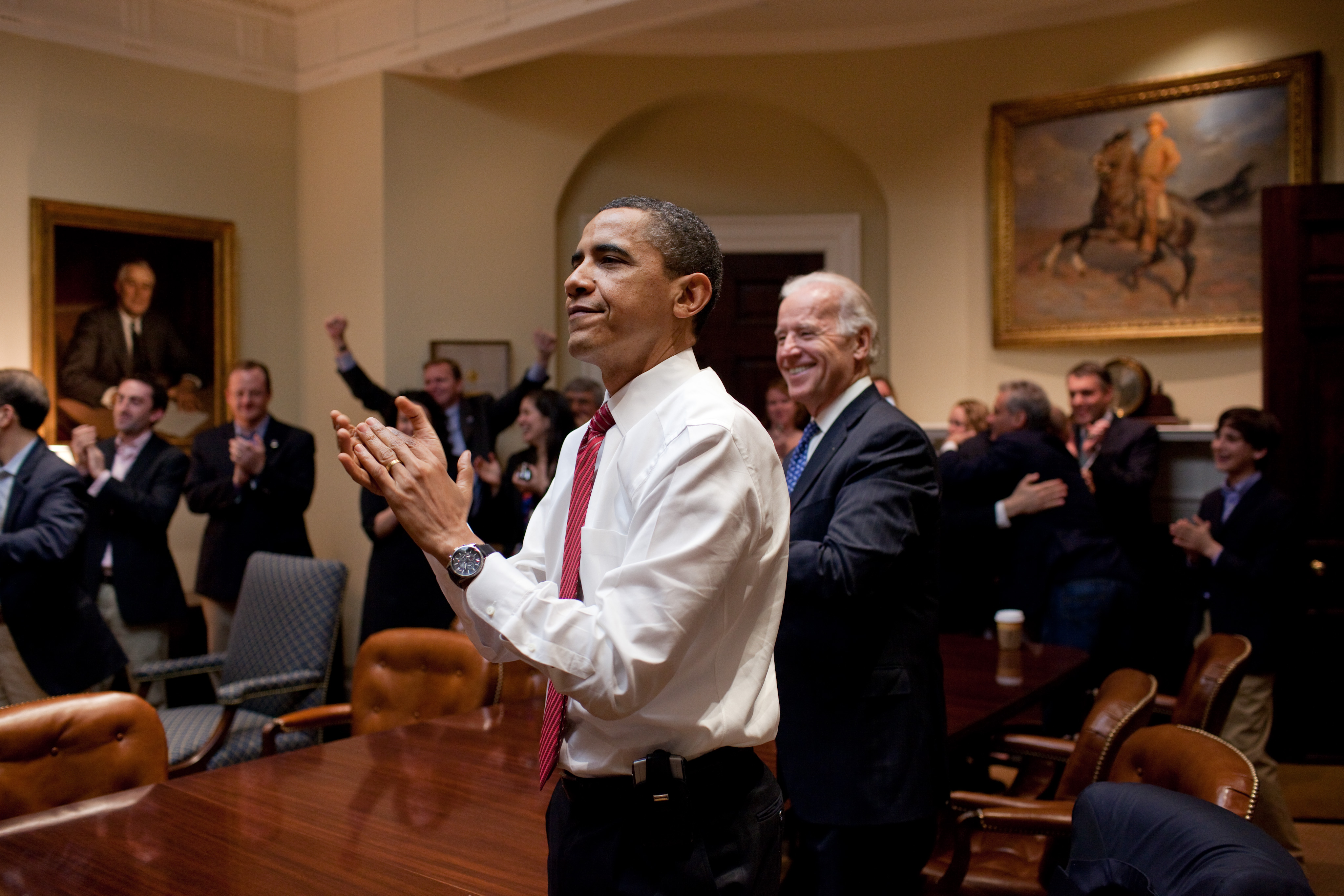 President Barack Obama, Vice President Joe Biden, and senior staff, react in the Roosevelt Room of the White House, as the House passes the health care reform bill.